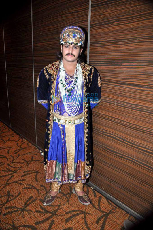 Ekta Kapoor launches ‘Jodha Akbar’